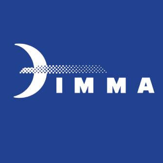 The photo is of Dimma's logo and it contains a moon.